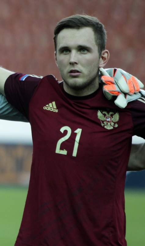 Ilya Petrov playing for Russia U-21 against Estonia U-21 on 21 January 2016.